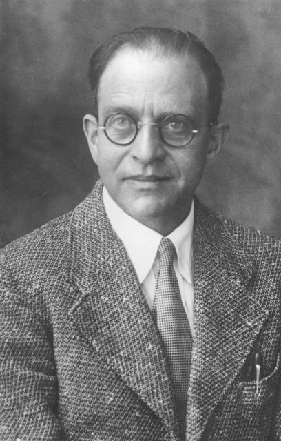 Oskar Bloch, about 1934